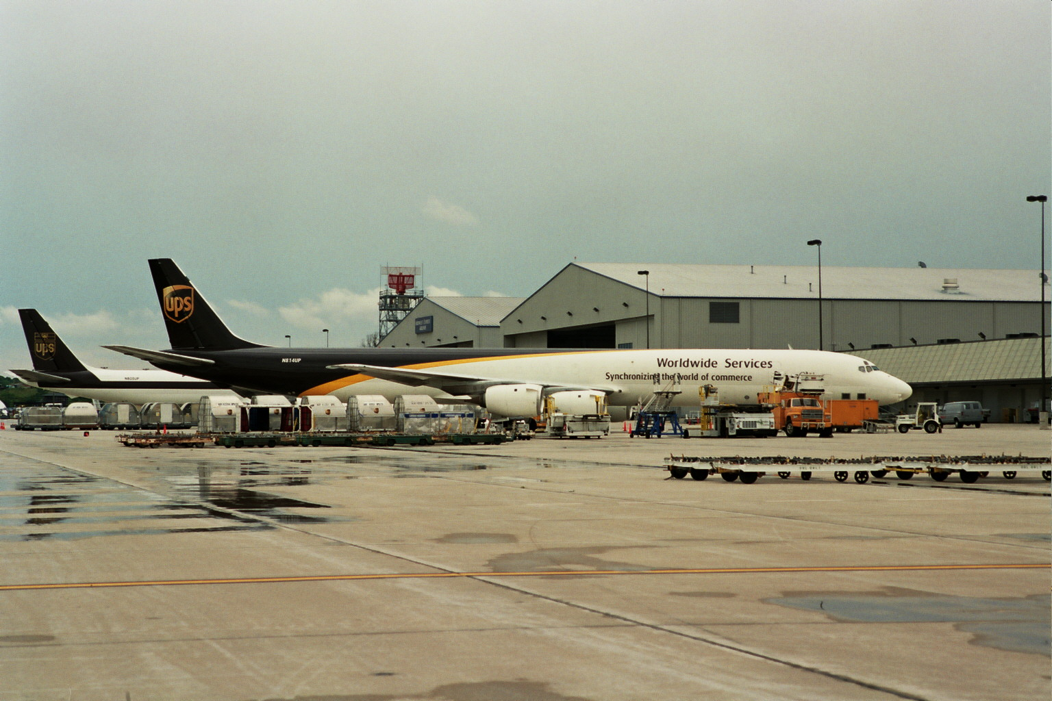 This is a 2005 photograph of two DC-8-73s operated by UPS Airlines. Both aircraft have since been retired from service. This photograph was taken at the UPS facility at General Mitchell International Airport in Milwaukee, Wisconsin. The aircraft in the foreground (N814UP) wears the current UPS Airlines "Worldwide Services" livery while the aircraft in the background (N805UP) wears the original UPS Airlines livery, which was phased out with the change in the UPS company logo in early 2003.